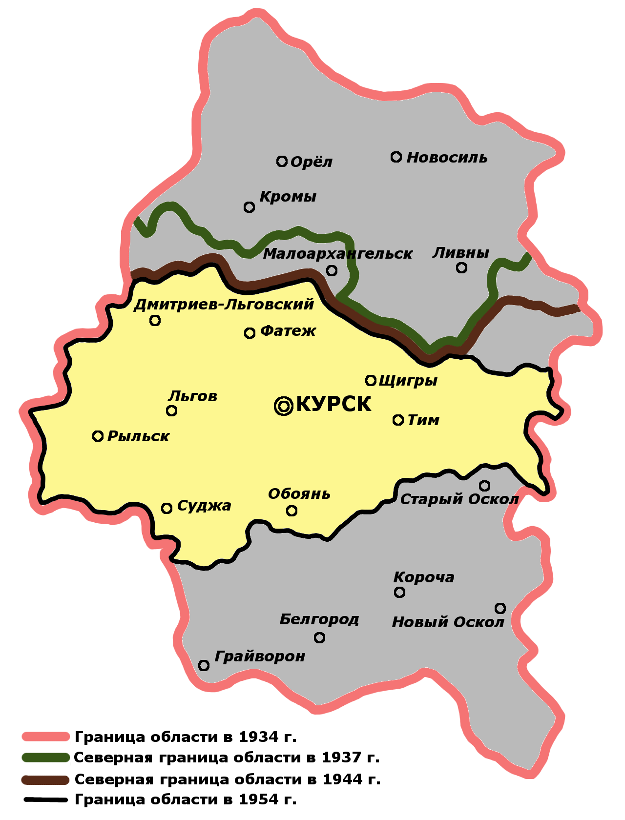 Kursk oblast (Russia) in 1934—1954